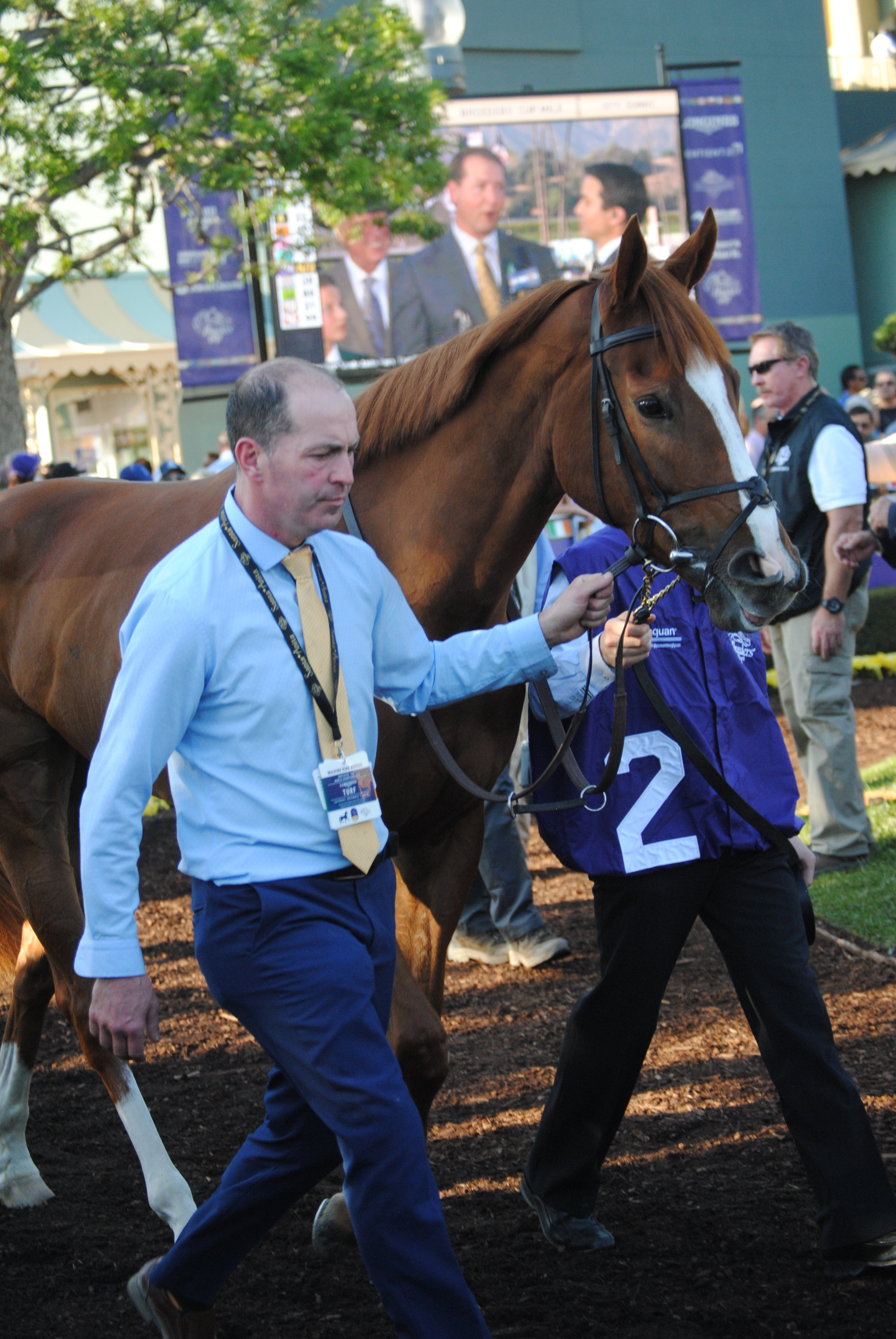 Alice Springs before the 2016 Breeders' Cup Turf